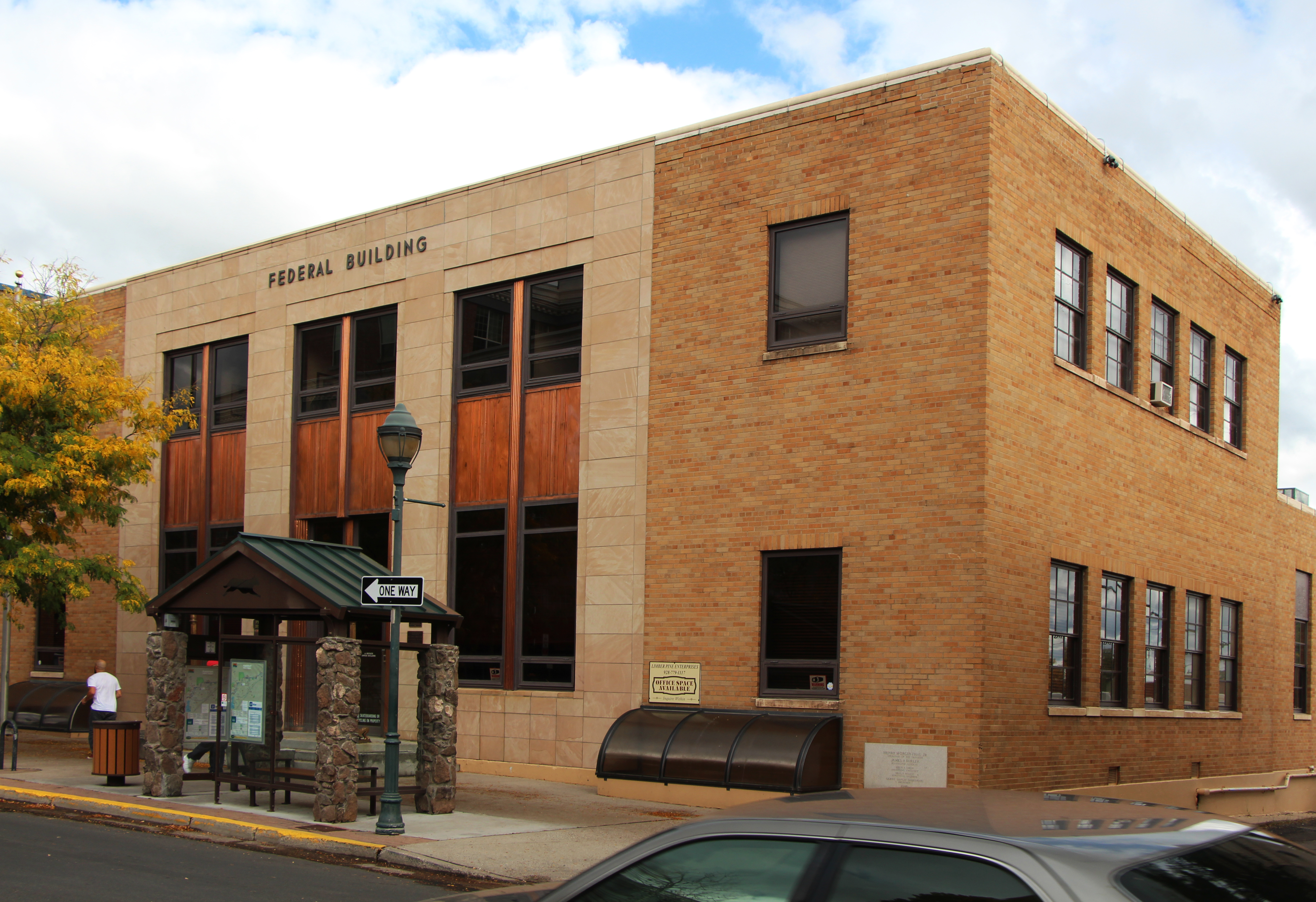 Federal Building, 123 N San Francisco St, Flagstaff, AZ